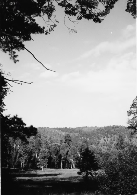 C. Hart Merriam Base Camp The Meadow NPS photo 1964